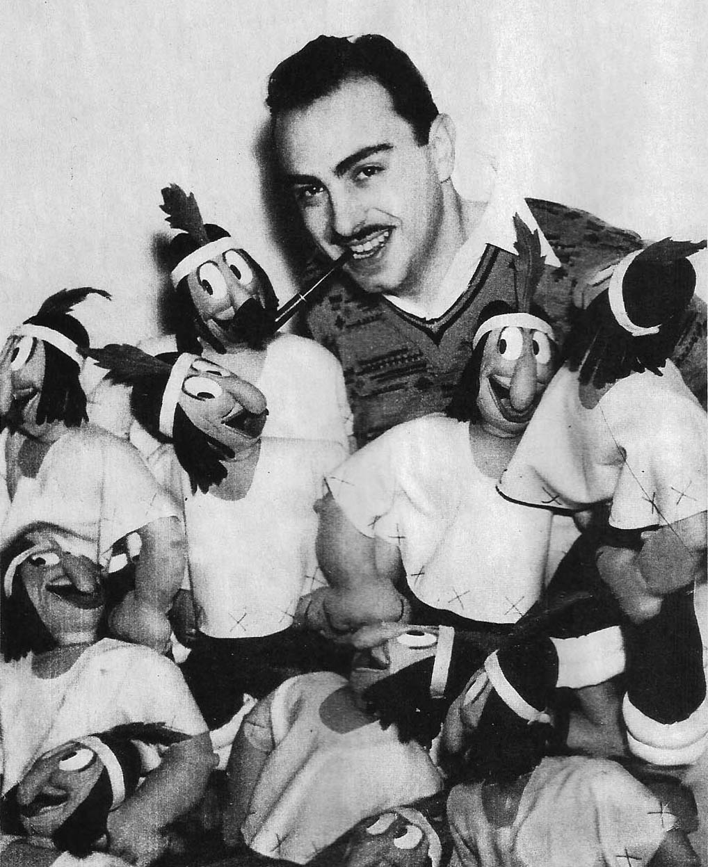 Cartoonist Dante Quinterno, creator of popular comic character, Patoruzú.